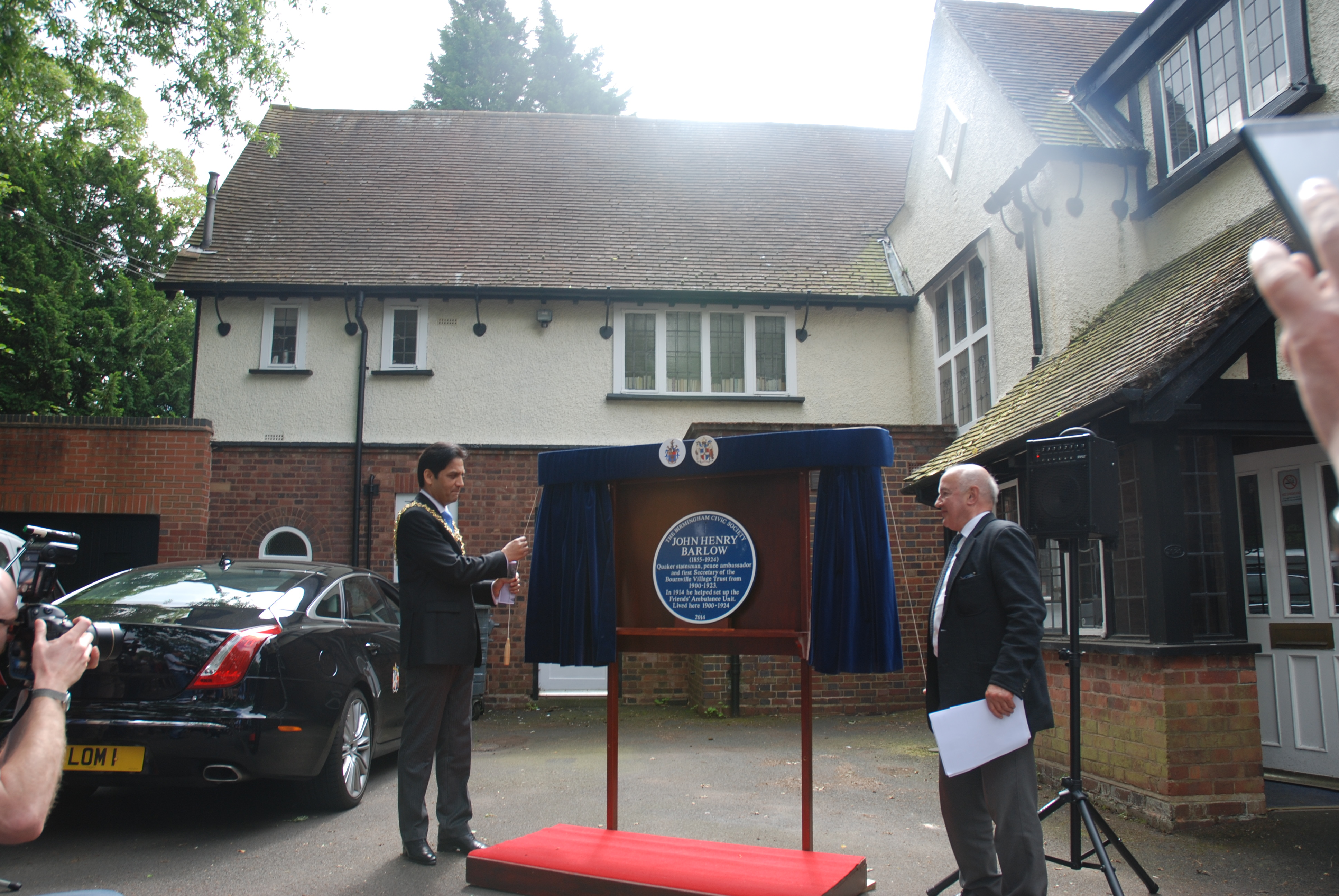 The Lord Mayor of Birmingham, Shafique Shah and Tony Barlow, a grandson of John Henry Barlow standing outside Sunnybrae, 1020 Bristol Road, Birmingham, B29 6LB unveil a blue plaque to be erected on the house . This is the house that George Cadbury built for the Barlow family a couple of hundred metres up the Bristol Road from his own home, Woodbrooke (now the European Quaker Study Centre). John Henry Barlow was the first manager of the Bournville Village Trust and in 1914 he helped to set up the Friends' Ambulance Unit. The plaque reads: The Birmingham Civic Society John Henry Barlow (1855 – 1924) Quaker statesman, peace ambassador and first secretary of the Bournville Village Trust from 1900 – 1923. In 1914 he helped to set up the Friends' Ambulance Unit. Lived here 1900 – 1924. 2014